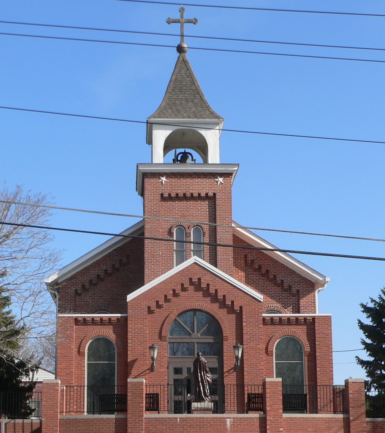 St. Benedict's Church, located at 411 5th Rue in Nebraska City, Nebraska; seen from the northwest, across 5th Rue.